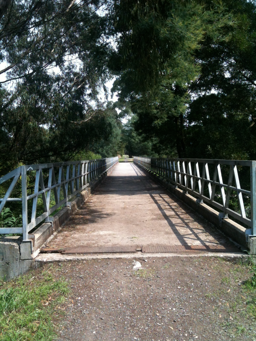 Bridge on the Moe-Yallourn Rail Trail in Moe, Victoria, Australia